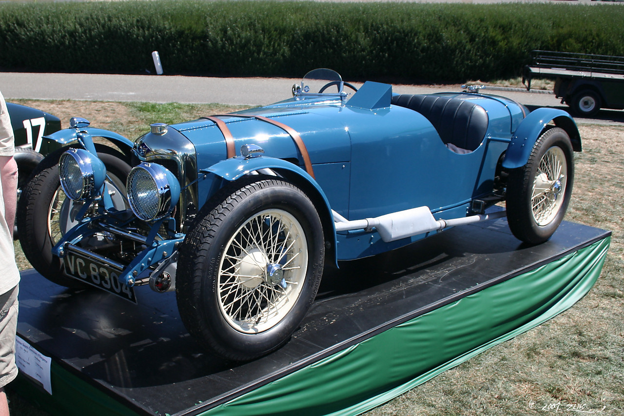 1931 Riley 9 Brooklands 2 Seater Sports(DVLA) manufactured 1931, 1087ccPebble Beach Concours d'Elegance 2007